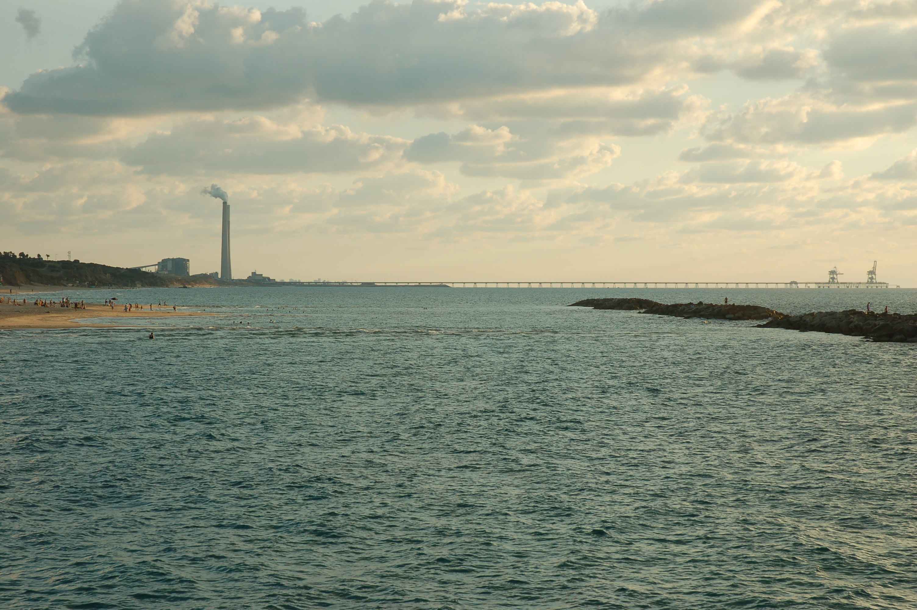 Israel Electric Company's coal power plant at Zikim אשקלון